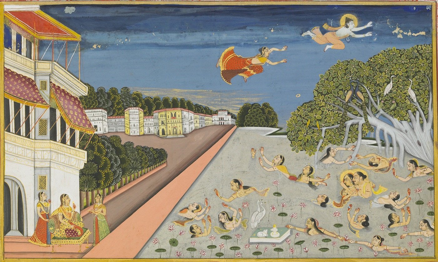 Jallandharnath and the Princess Padmini fly over King Padam's palace, folio from the Suraj Prakash, Amardas Bhatti, 1830 (Samvat 1887). The royal collection of the Mehrangarh Museum Trust, Jodhpur.